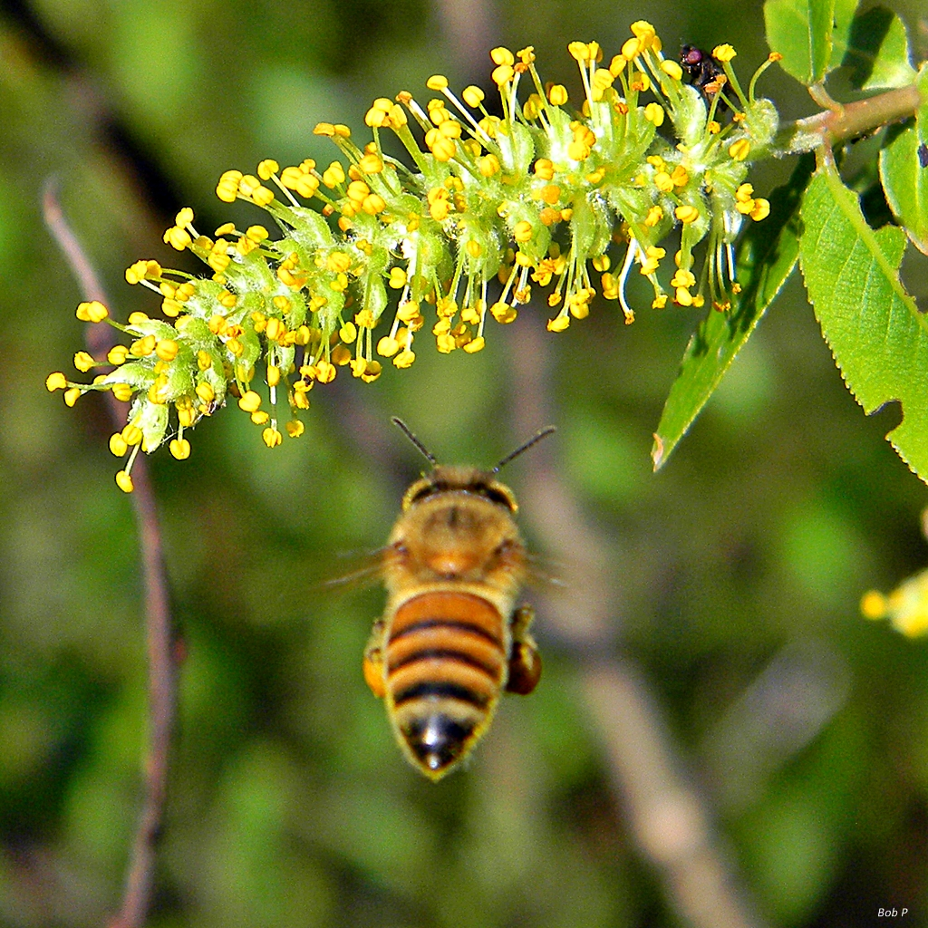 Honey bee on final approach to collect pollen from a male willow catkin.